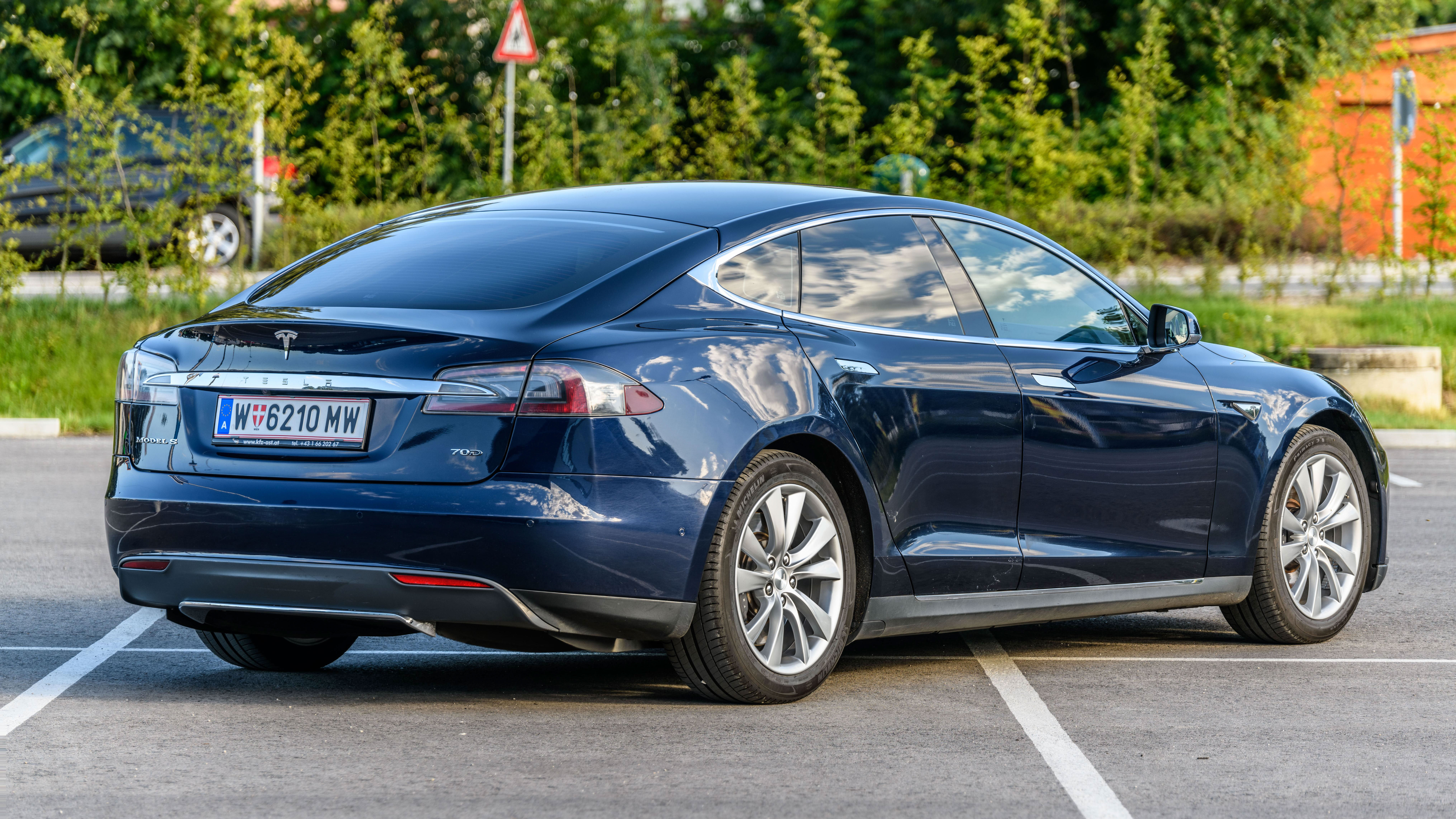 Tesla Model S 70D 2015, midnight blue. Picture shows: rear right